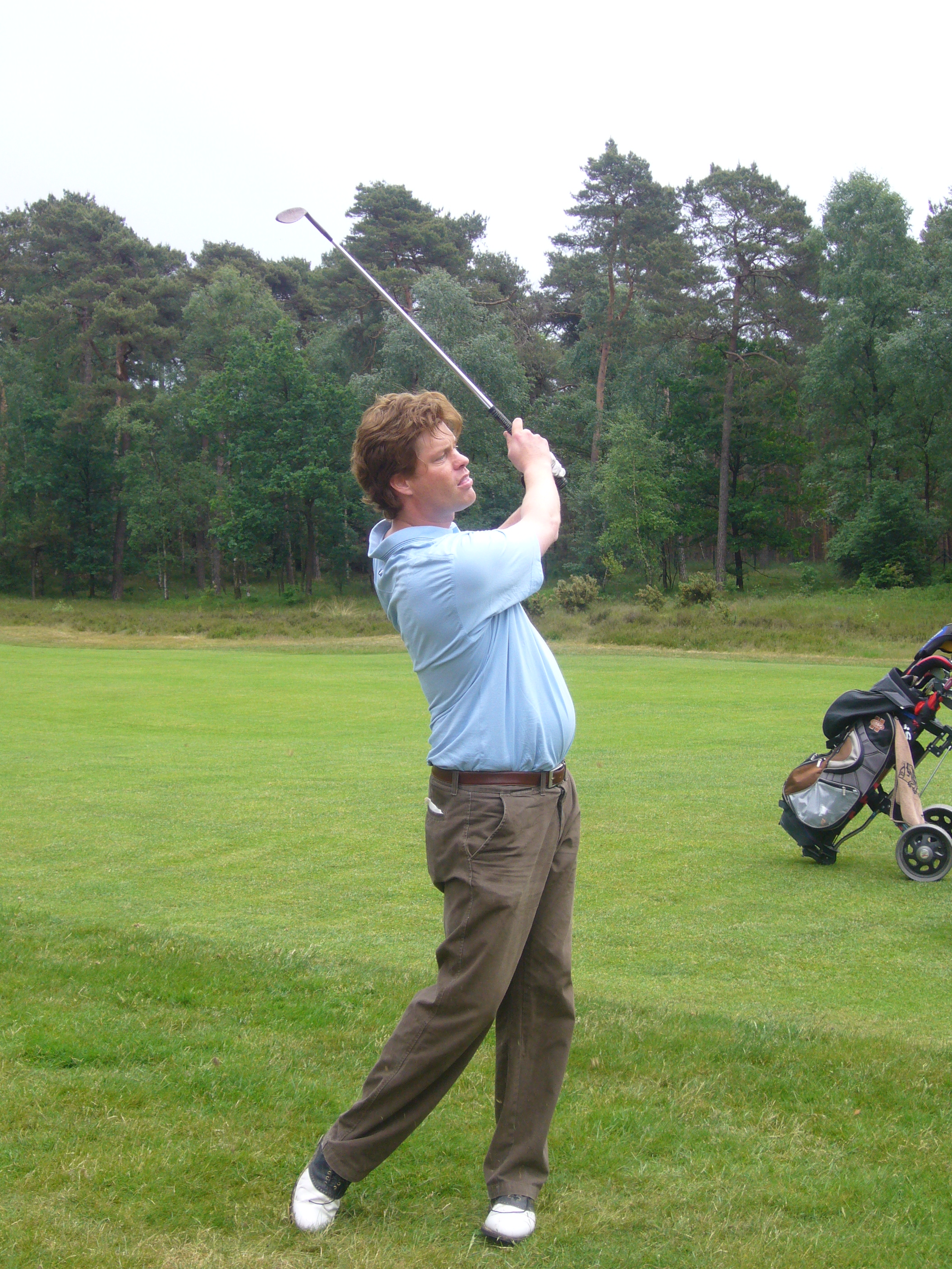 Niels Boysen, Dutch golfer